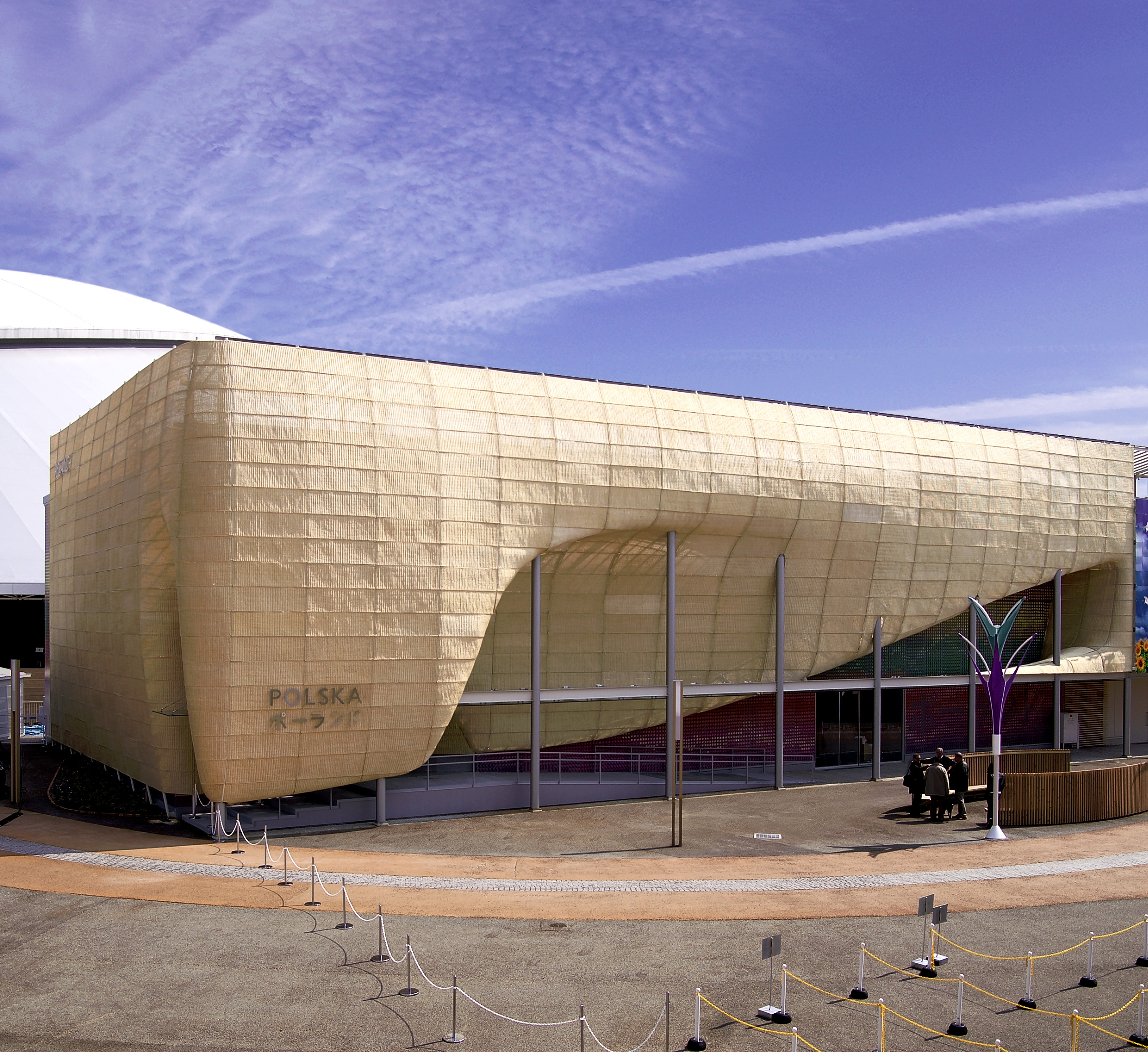 Polish Pavilion EXPO 2005 Aichi Japan, designed by Ingarden & Ewy Architects, Krakow Poland, innovative wicker hand made elevation